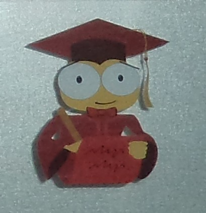 RUmen - the talisman of Rousse University